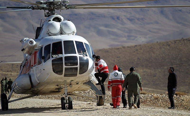 The second day of searching for the crash plane of the ATR 72